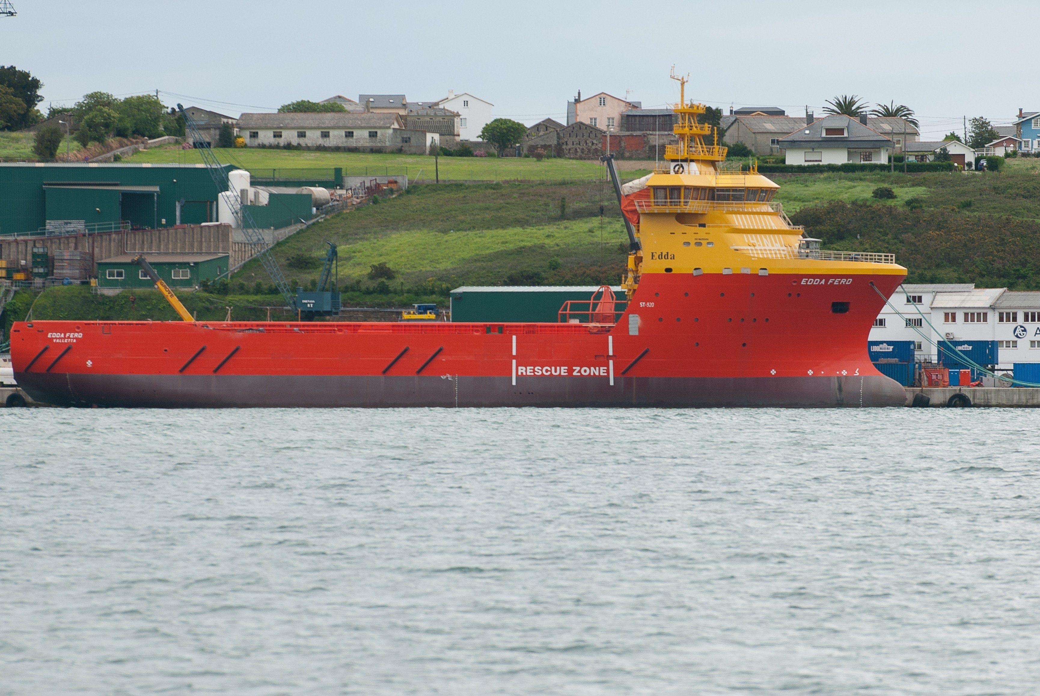 This PSV is the result of the owner’s MIndSET – (Marine Industry Superior Environmental Thinking) programme launched at NorShipping 2011. It features a complete new propulsion concept including diesel generator sets with variable rpm and has been developed together with Siemens’ BlueDrive Plus C concept